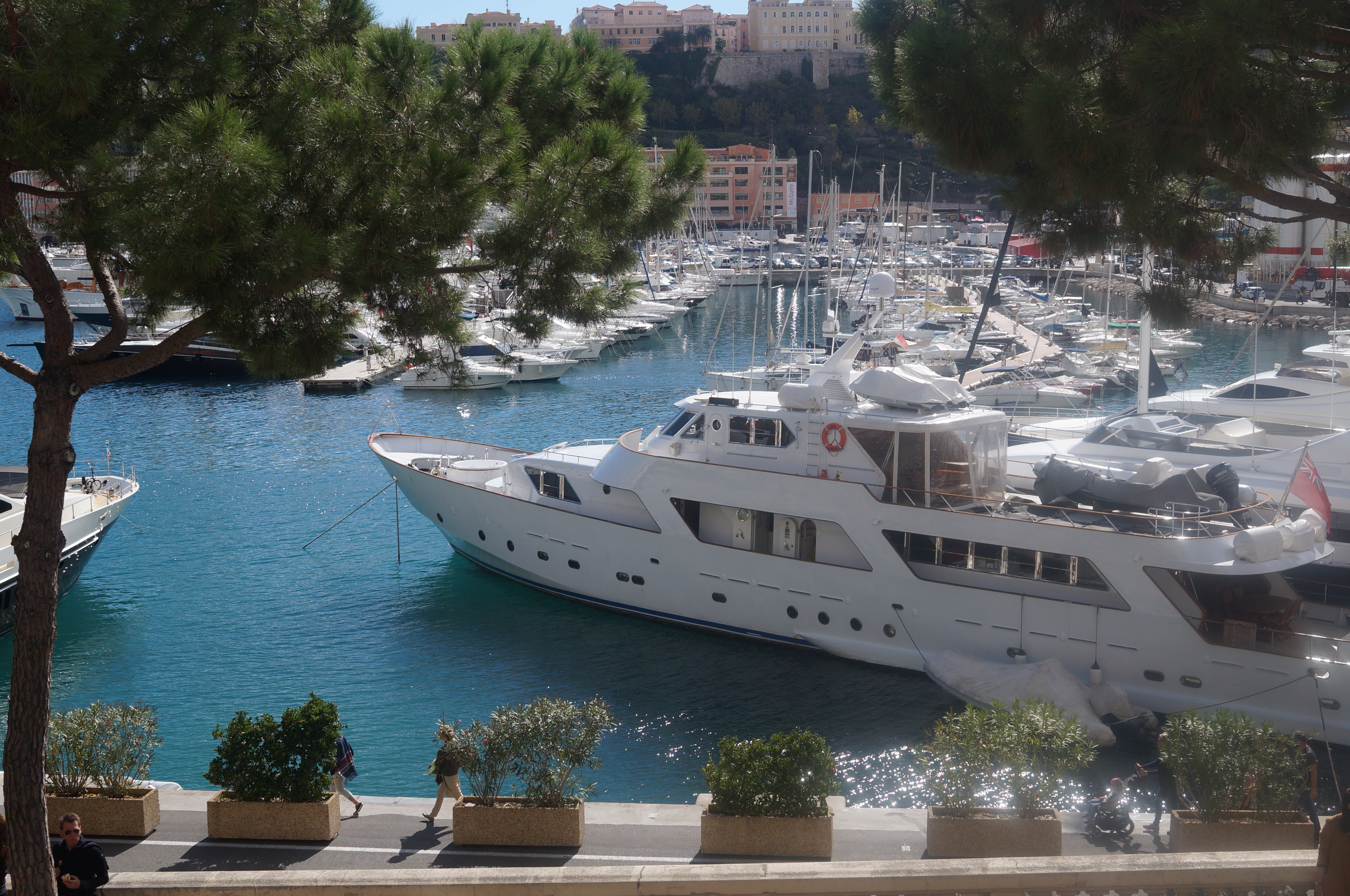 monaco sea